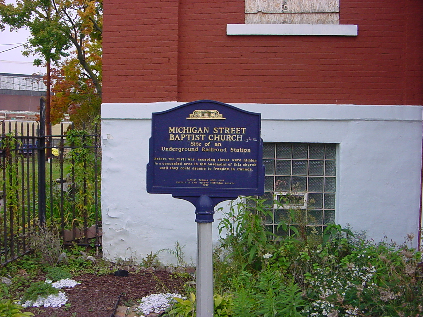 Photo of the site marker for the Macedonia Baptist Church